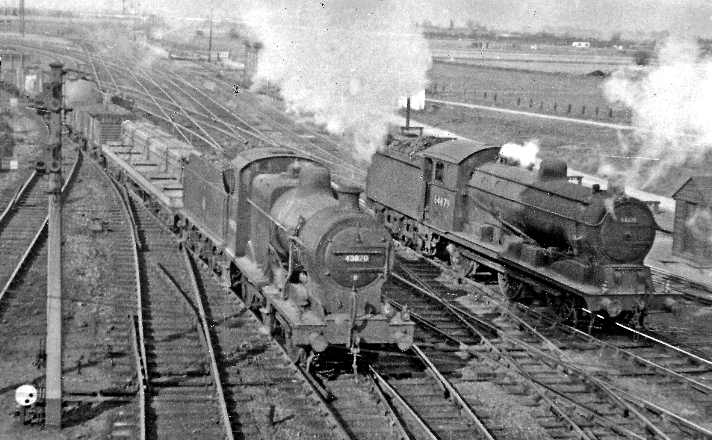 Contrasting 0-6-0s at Whitemoor Junction, March. View northward to Whitemoor Marshalling Yards and towards Spalding and the North, also Wisbech and Kings Lynn, BR(ER) ex-GE&GN Joint. On the left is ex-Midland Fowler 4F 0-6-0 No. 43870 (built c. 1914, withdrawn 10/63) leaving the Up Yard on a Class K freight for Peterborough, LMR locomotives being relatively rare at Whitemoor: on the right is ex-GE Hill LNER J20/1 class 0-6-0 No. 64679 (built 12/20, withdrawn 1/61).